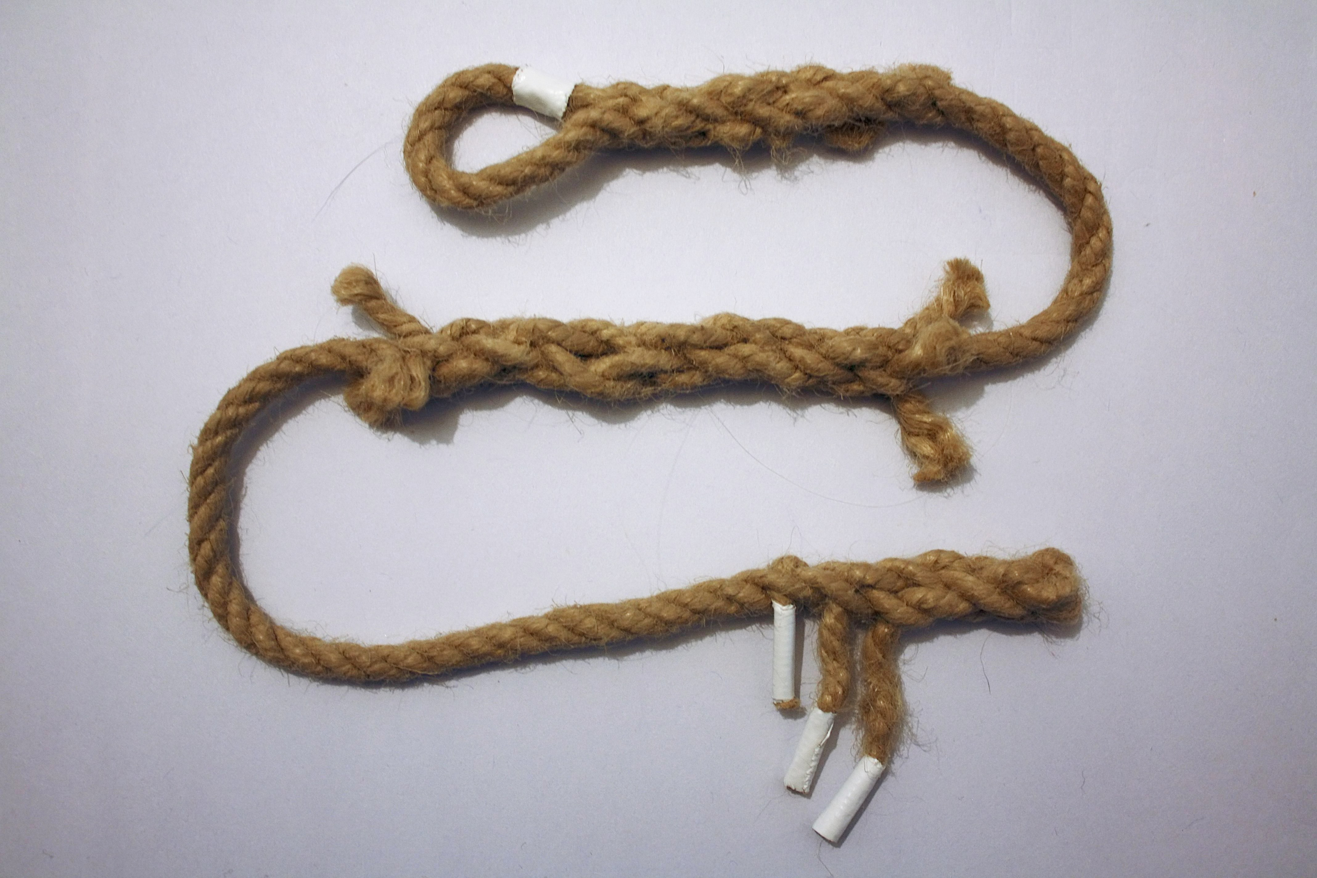 Three splices. top to bottom: eye splice, short splice and end splice. This is a practice rope, all splices are finished but not all ends are cut and some helper tapes are still present.